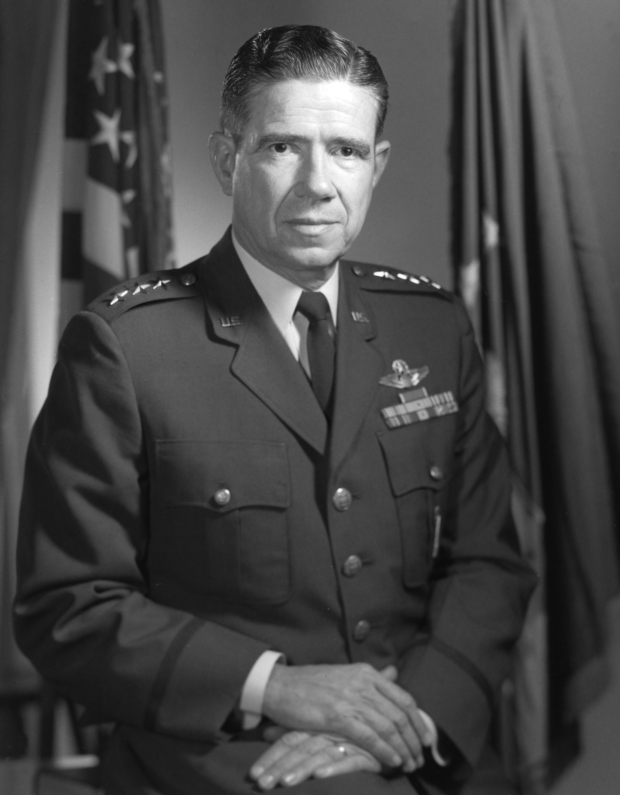 Photograph of Lt. Gen Otto John Glasser (USAF), directed program that developed the Atlas missile, the world's first operational Intercontinental ballistic missile